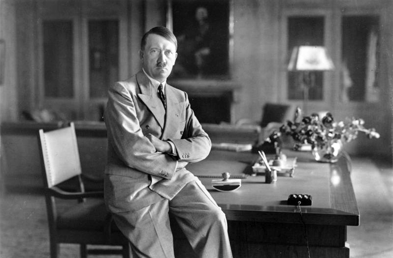 Obersalzberg, Berghof, Adolf Hitler in office seating on his desk. Bavarian national library, Hoffmann phototheque, image number hoff-1956. Picture of 1936, published in IB in 1937, special issue titled : Adolf Hitler's Germany.